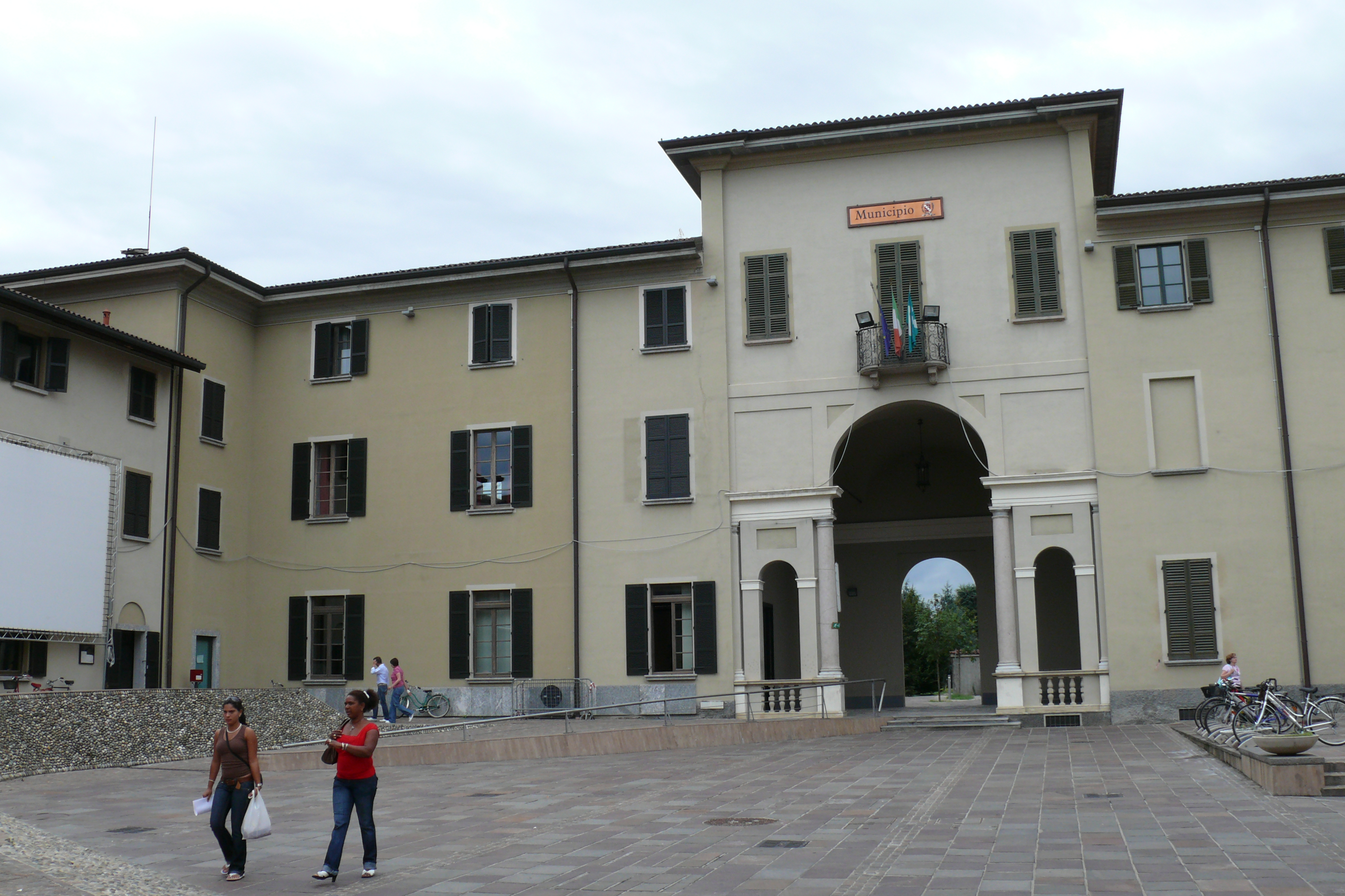 Town council of Concorezzo, Square of Peace